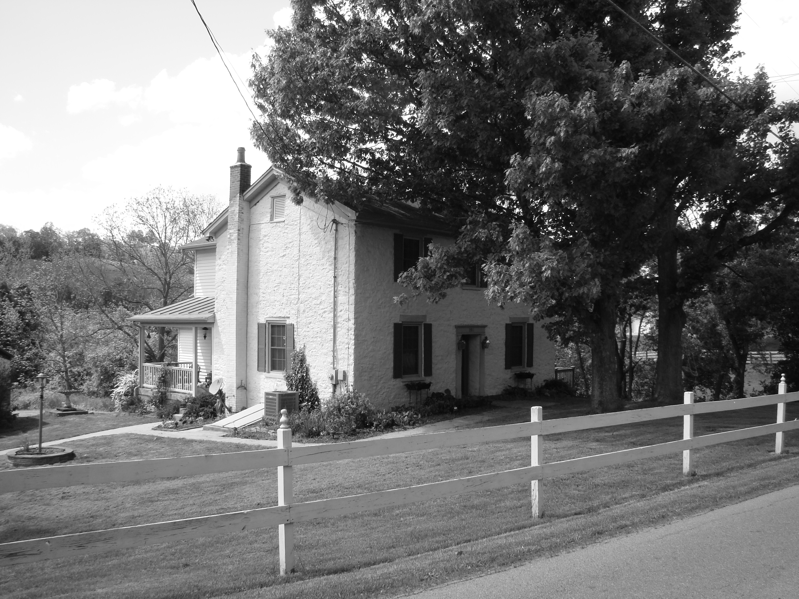 Baumann House, a historic house located on Camp Springs, an unincorporated area of Campbell County, Kentucky.